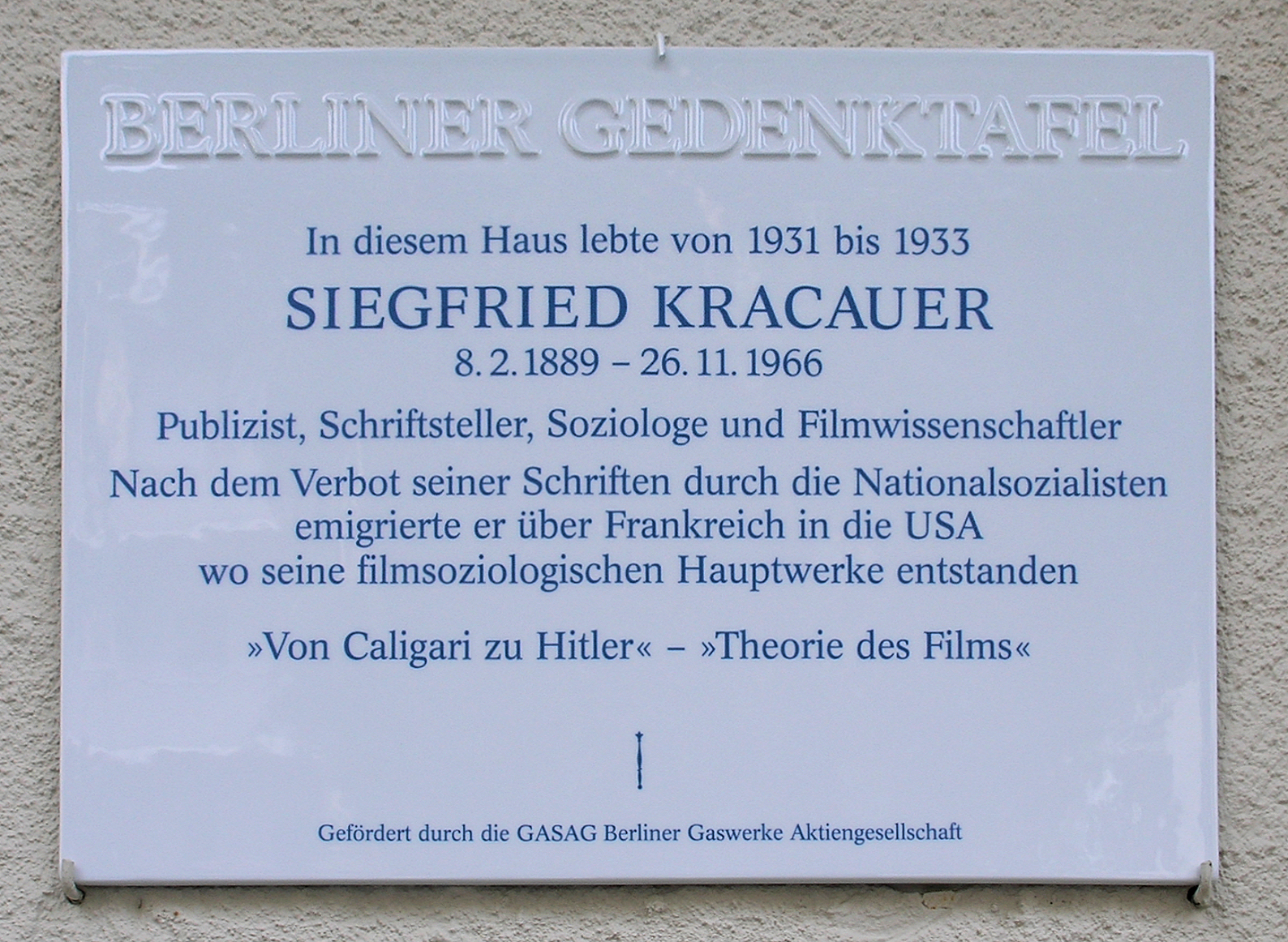 Berlin memorial plaque, Siegfried Kracauer, Sybelstraße 35, Berlin-Charlottenburg, Germany